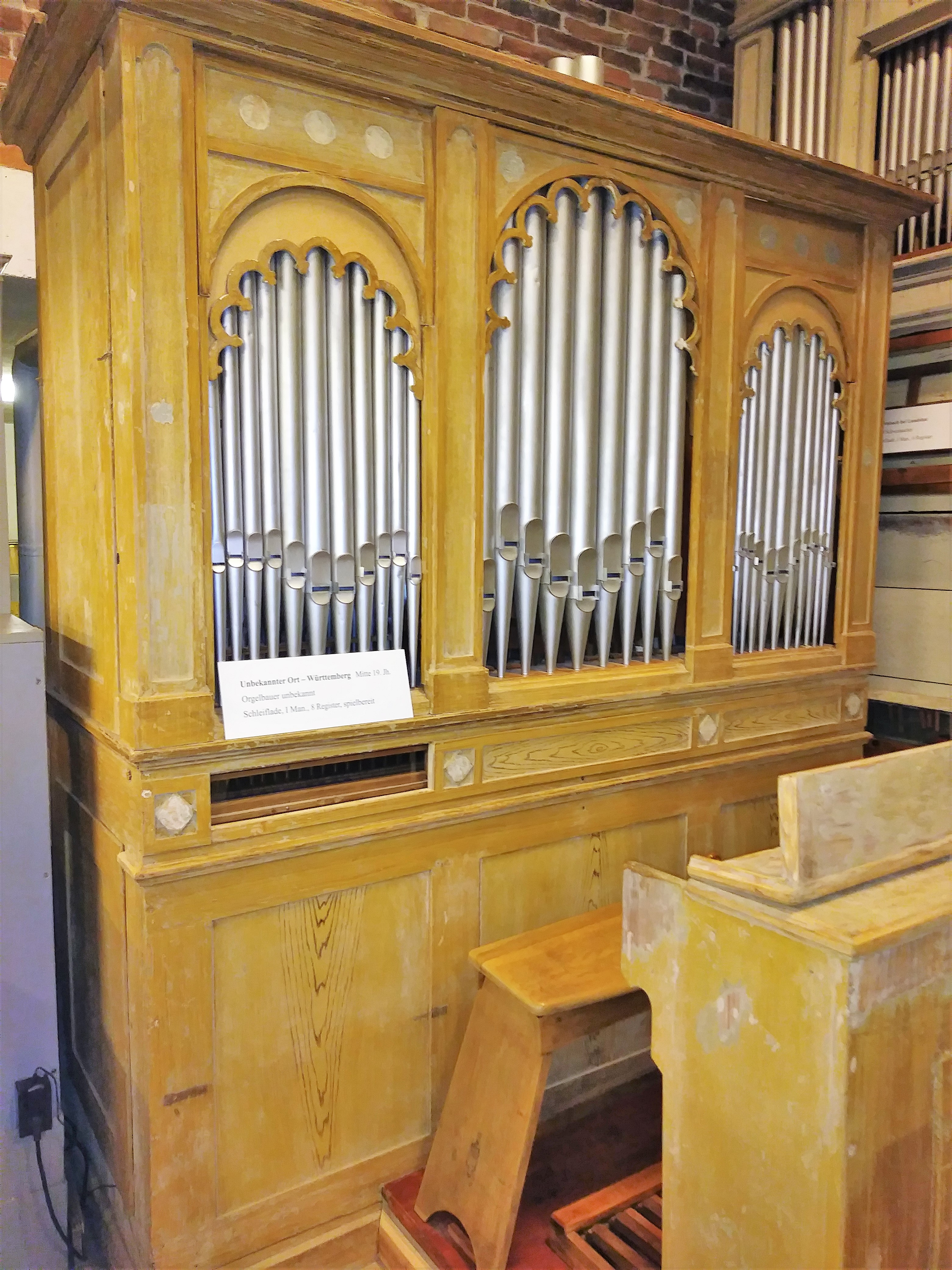 Orgel- und Spieltischsammlung im Untergeschoss der Zollingerhalle (Orgelzentrum Valley)